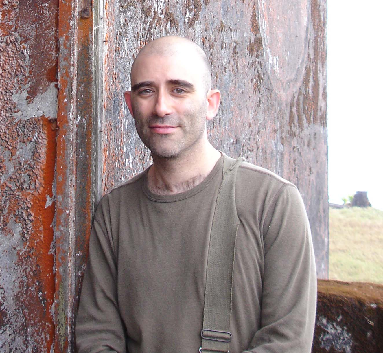 Photograph of Ricardo Pinto